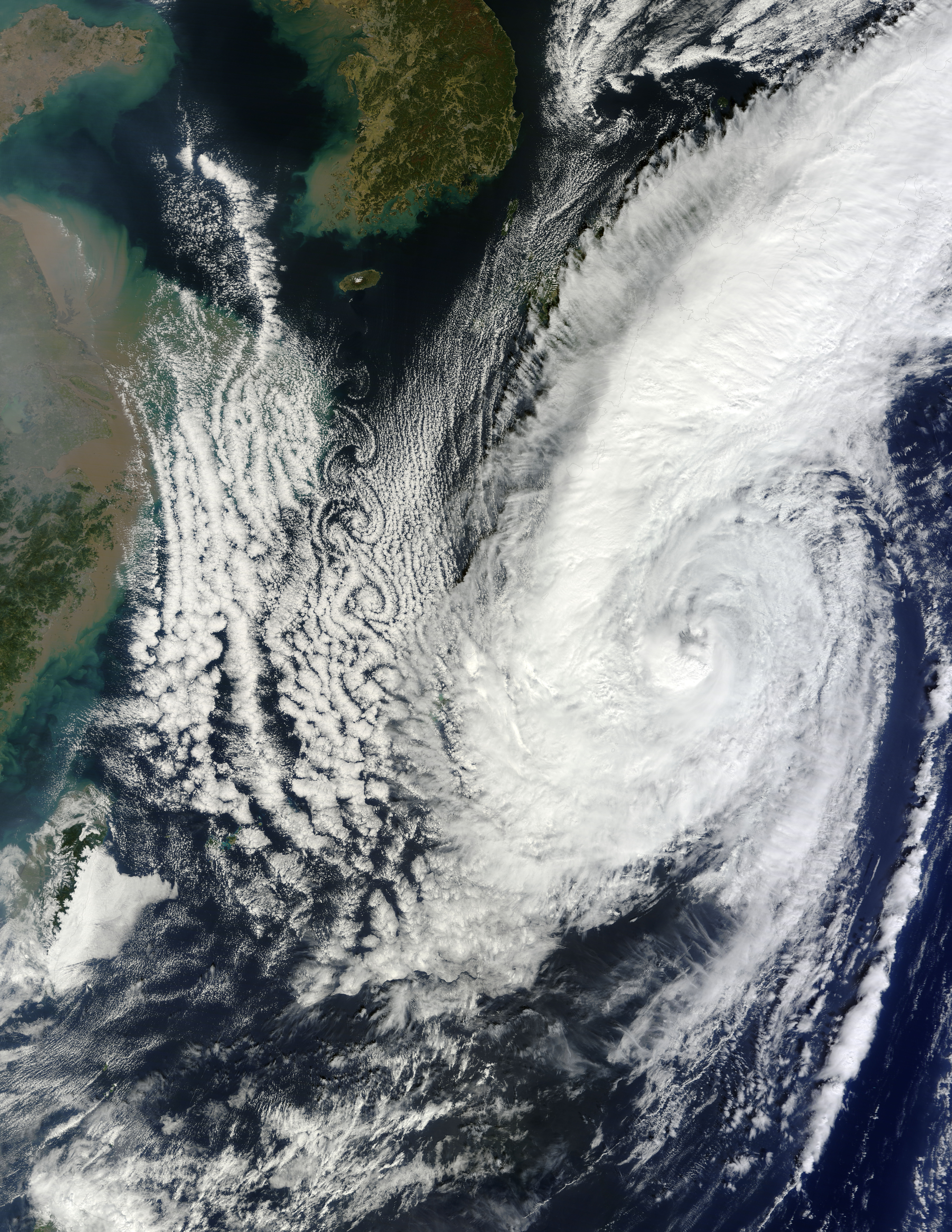 Severe Tropical Storm Prapiroon associated with a Kármán vortex street off Jeju Island on October 18, 2012.